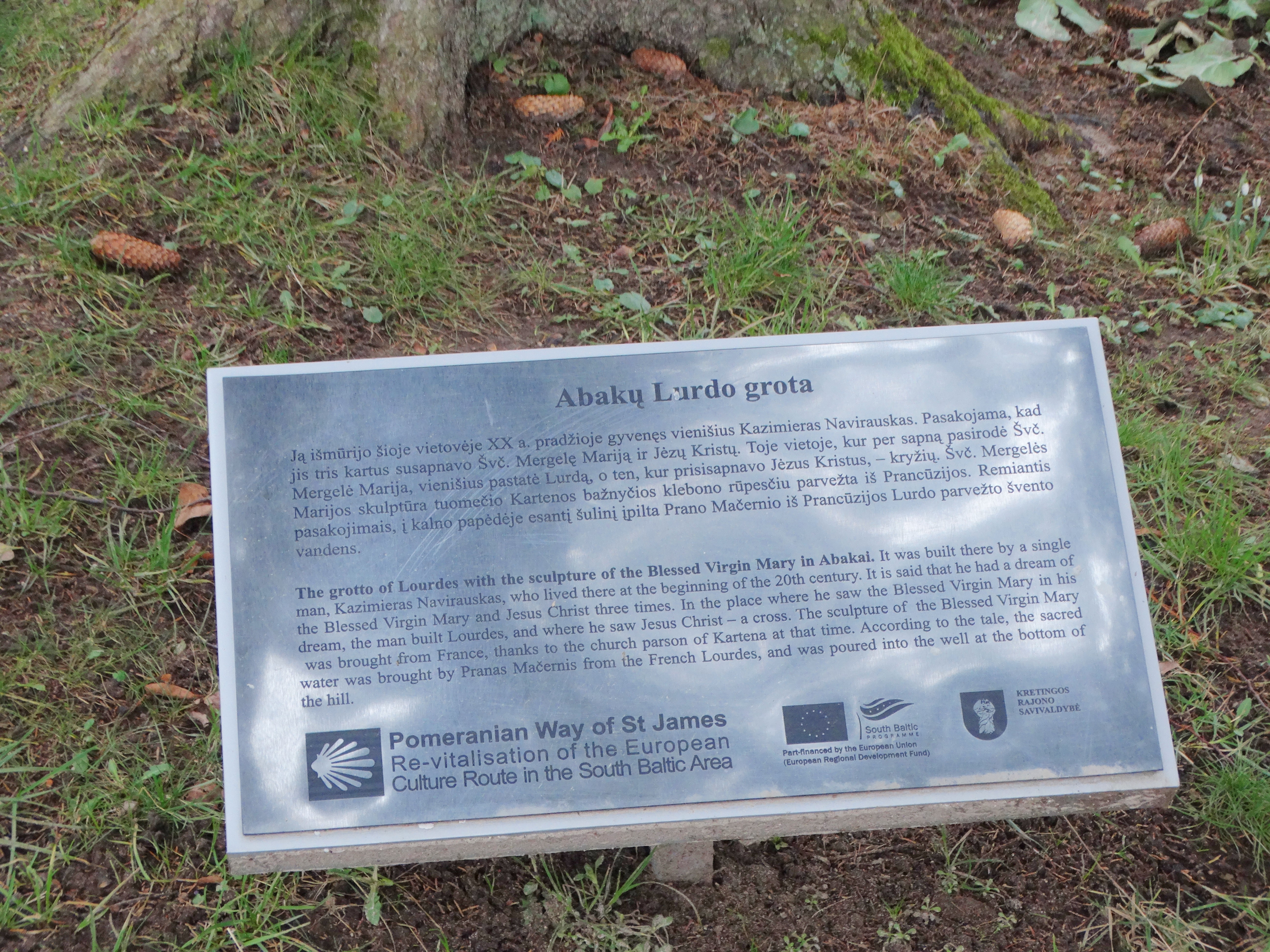 Lourdes replica in Abakai, Kretinga District, Lithuania